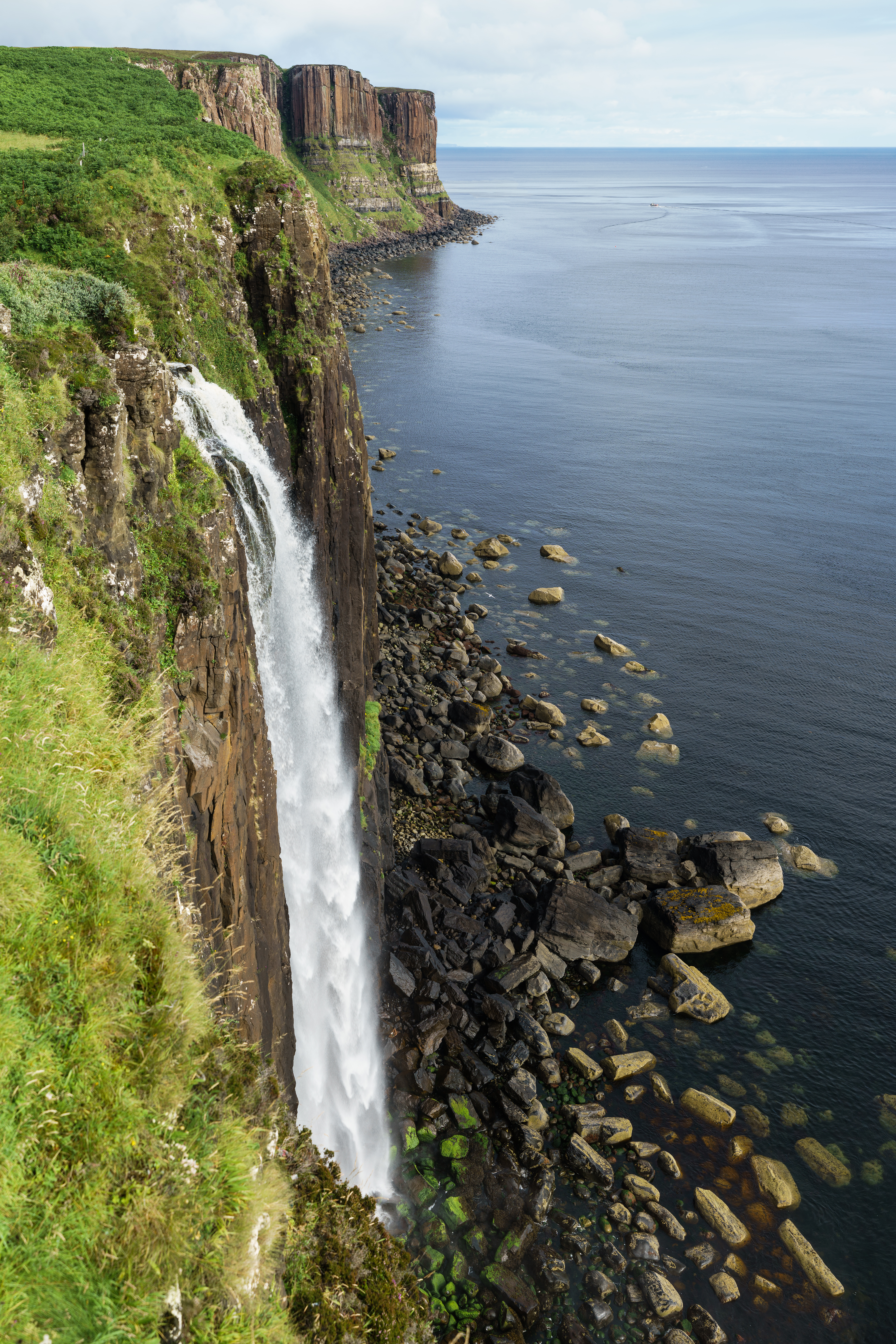 The waterfall from Loch Mealt falls 55 metres to the sea. Behind is Kilt Rock, 90 metres tall, so-called because the combination of basalt columns upon a sandstone base resembles a kilt. Photographer's notes: The image is stitched from 22 landscape-orientation frames in three columns. A Sony A77II camera was used with Sony 16-50mm lens at 50mm. The exposure was f/5.6, 1/160s and ISO 100. The camera has hand-held.